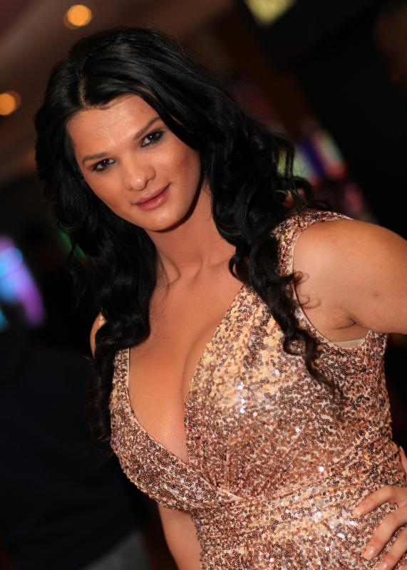 Britney Markham at Hard Rock Hotel Photos from the 2013 AVN Awards held at the at the Hard Rock Hotel & Casino in Las Vegas. Please provide photographer credit when using, tweeting, etc... Photo by Michael Dorausch This photo is licensed under a Creative Commons license. If you use this photo within the terms of the license or make special arrangements to use the photo, please list the photo credit as "Michael Dorausch" and link the credit to . Thank you to everyone for being so accommodating during the days I took photos, it's much appreciated.